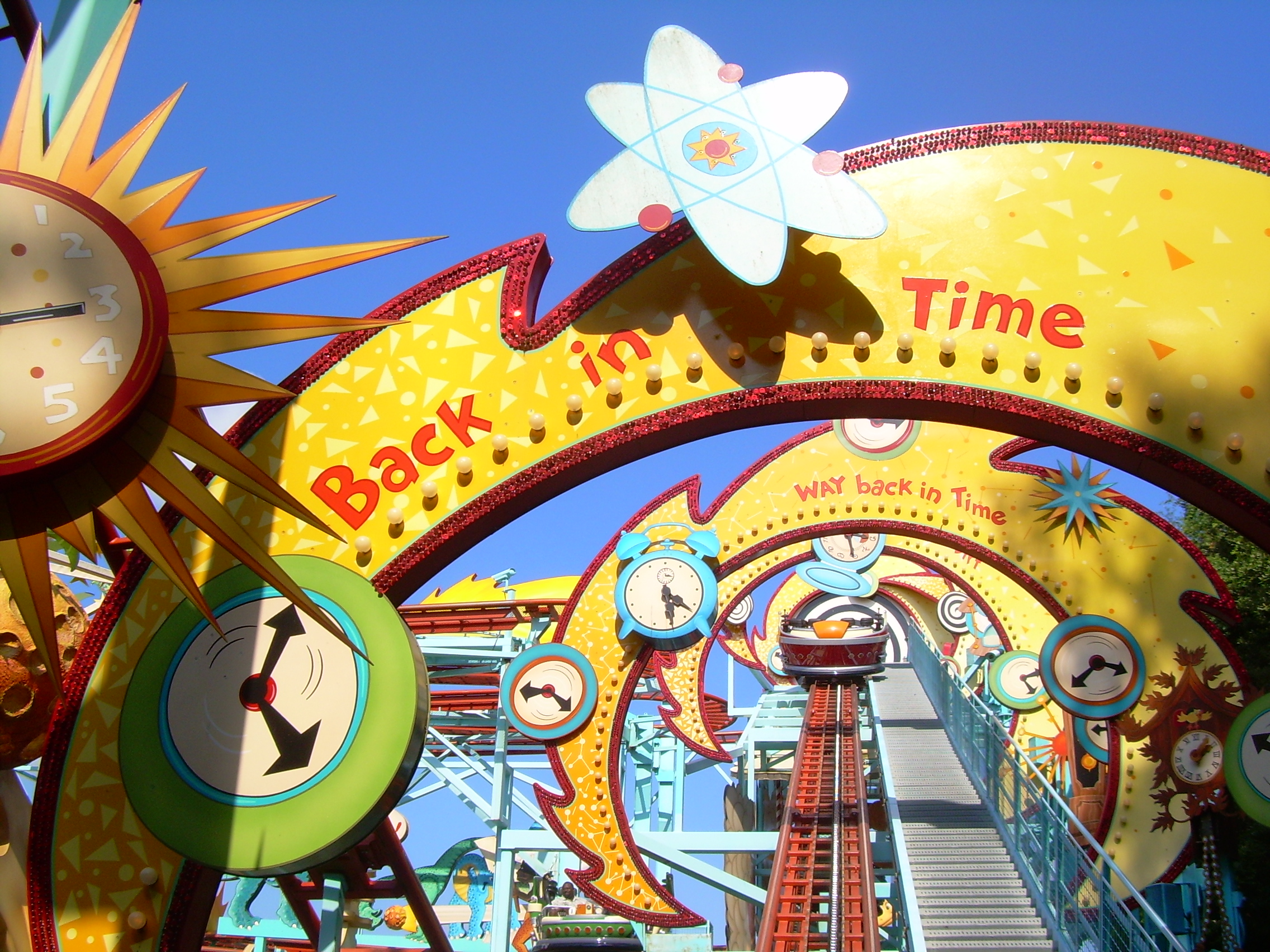 Primeval Whirl at Walt Disney World.